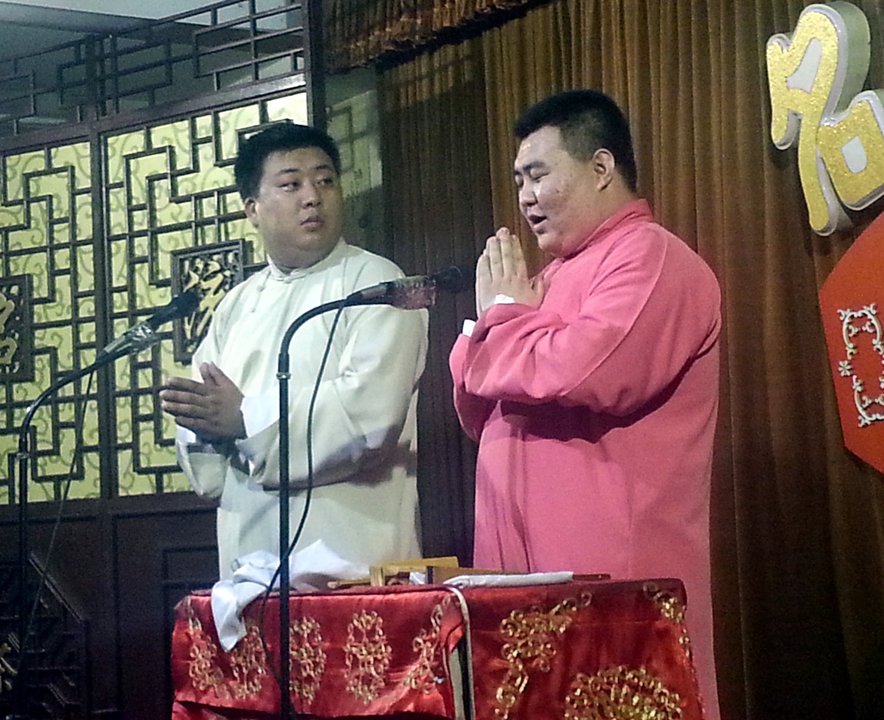 Photograph of performers in a crosstalk (xiangsheng) theater in Tianjin, China.